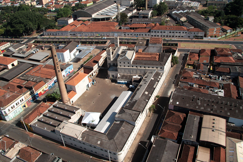 Aereal view of the "Feira Nacional do Livro" 2011, in Ribeirão Preto, São Paulo, Brazil.